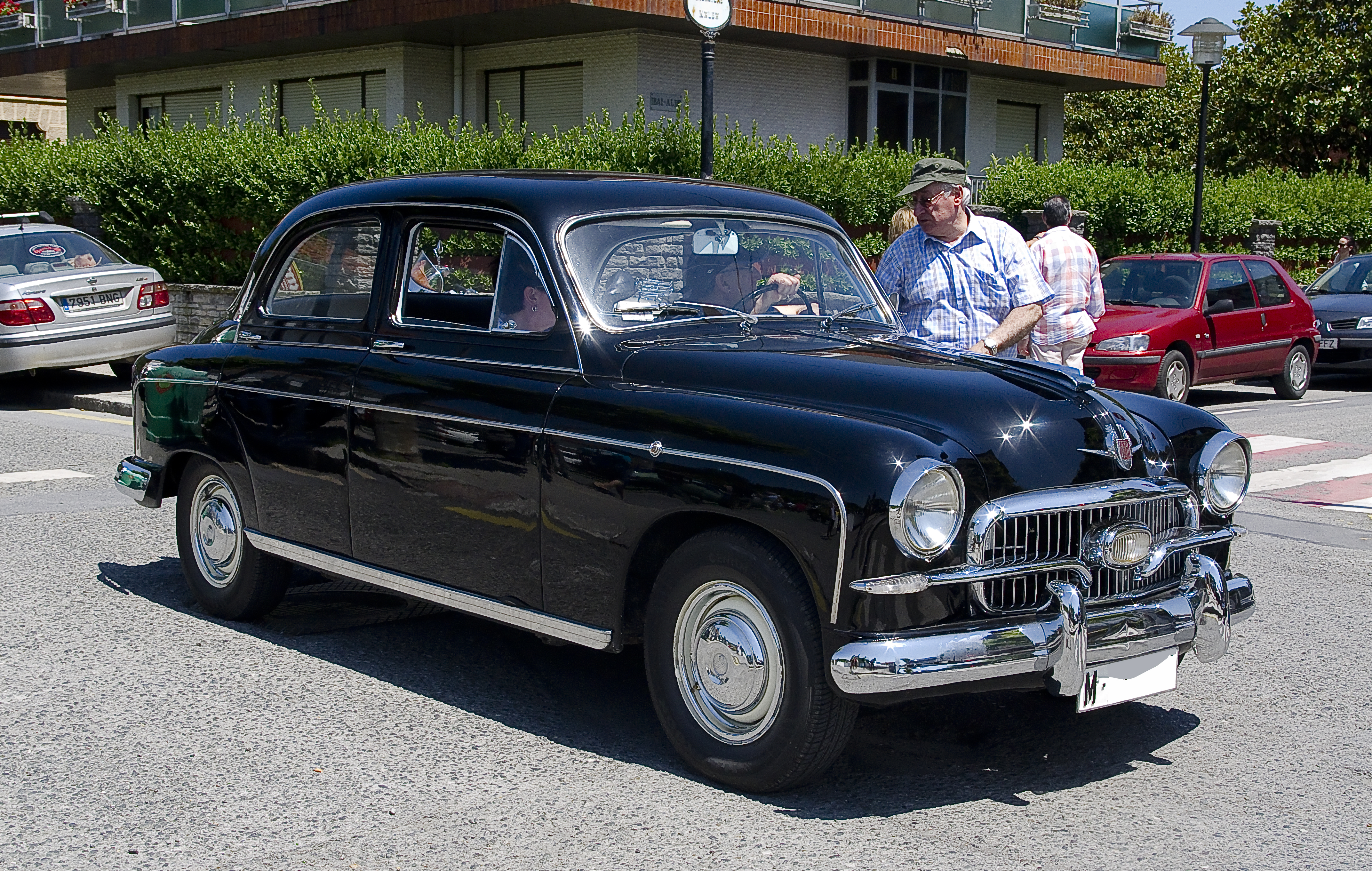 1958 Seat 1400 B